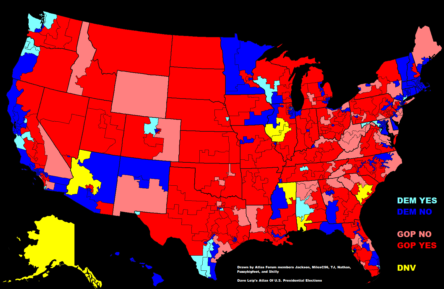 This map shows how members of the US House voted on the Trade Promotion Authority Bill.